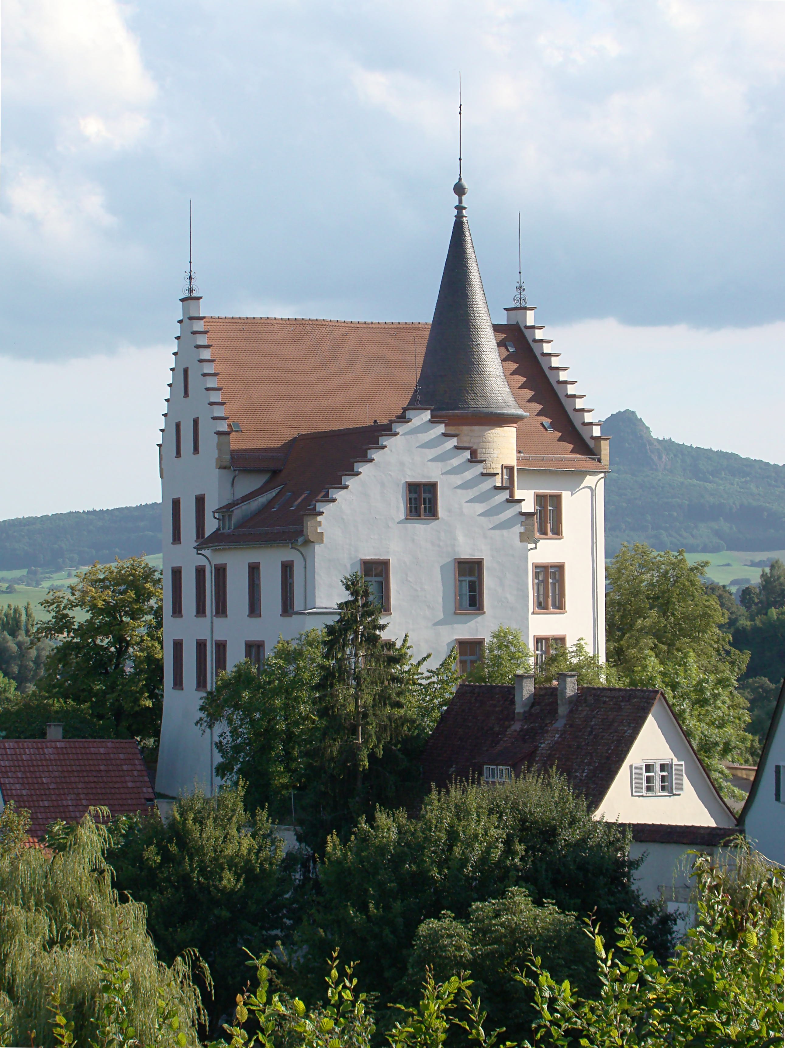 Engen, the Krenkinger Schlössle (castle)